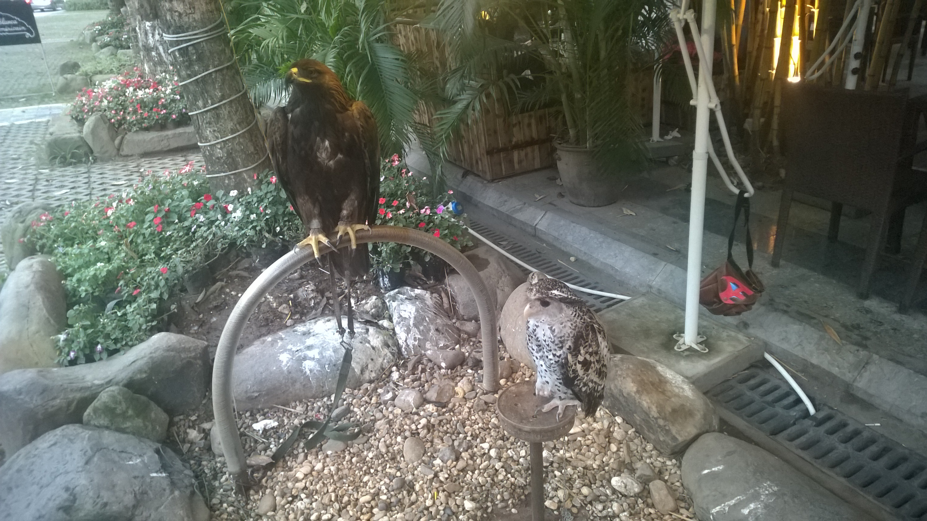 The eagle of Eagle Coffee.